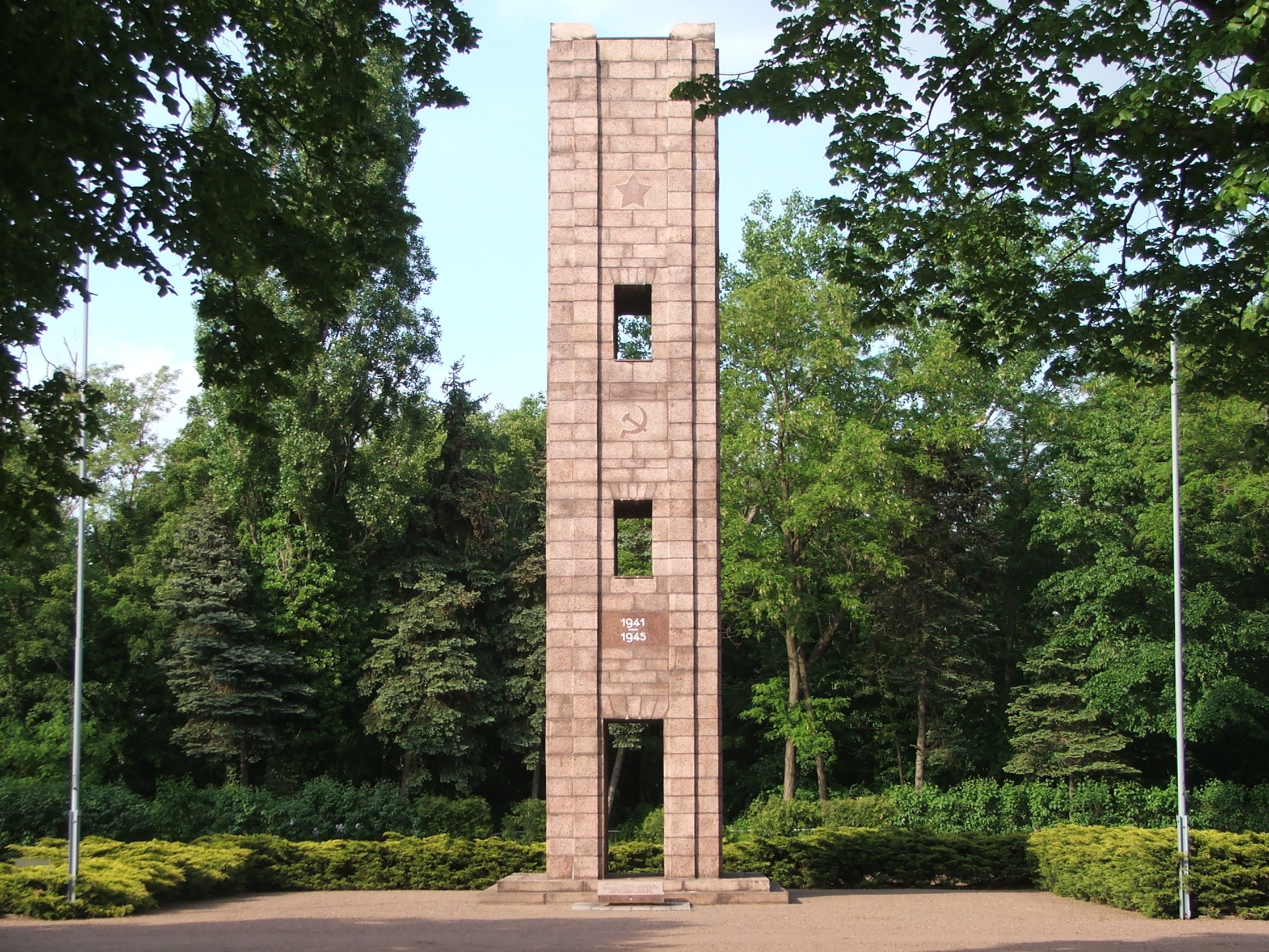 Memorial Ehrenhain Zeithain